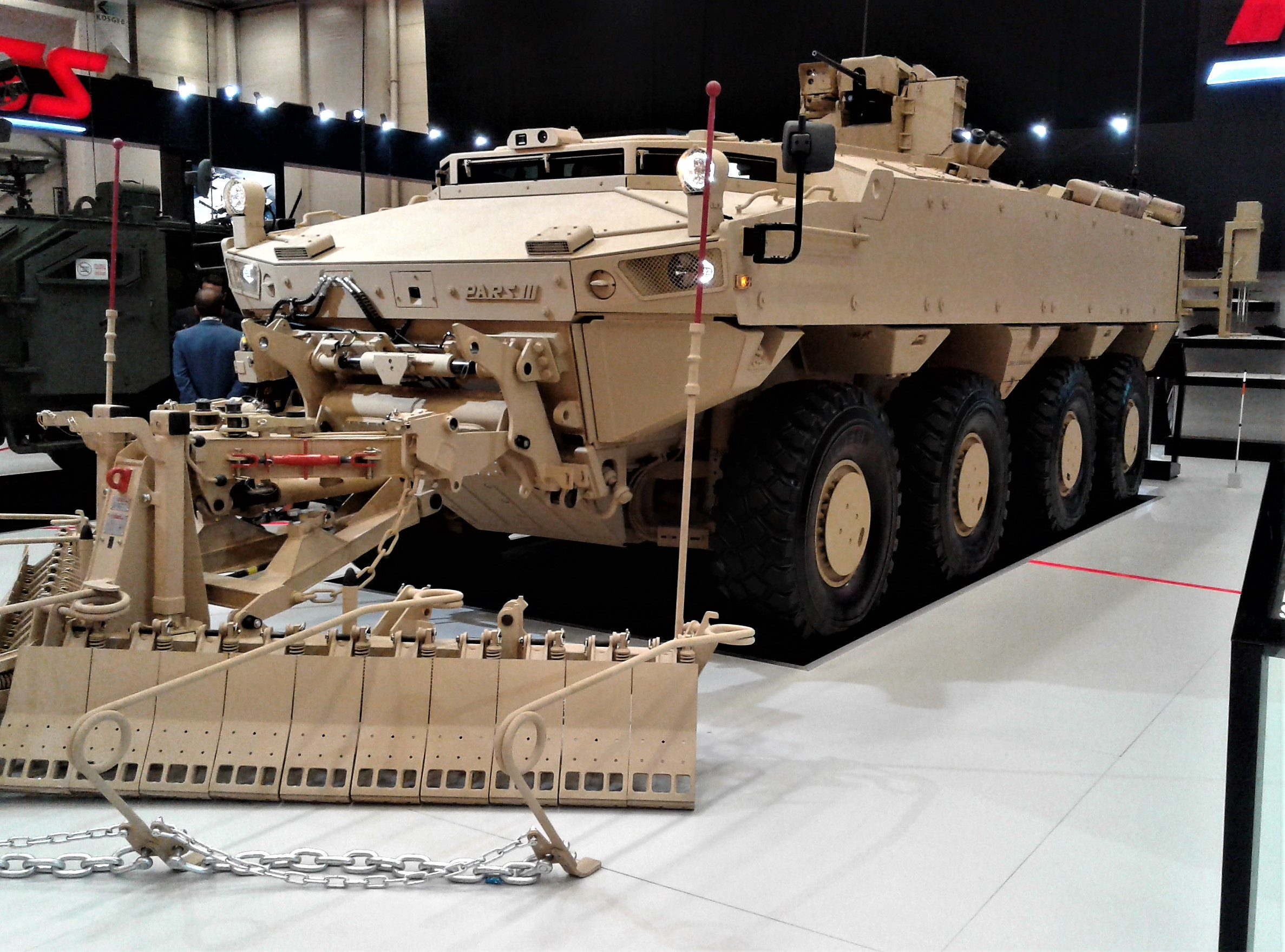 8x8 wheeled armored combat vehicle Pars III 8x8 at the IDEF 2019 in Istanbul, Turkey.